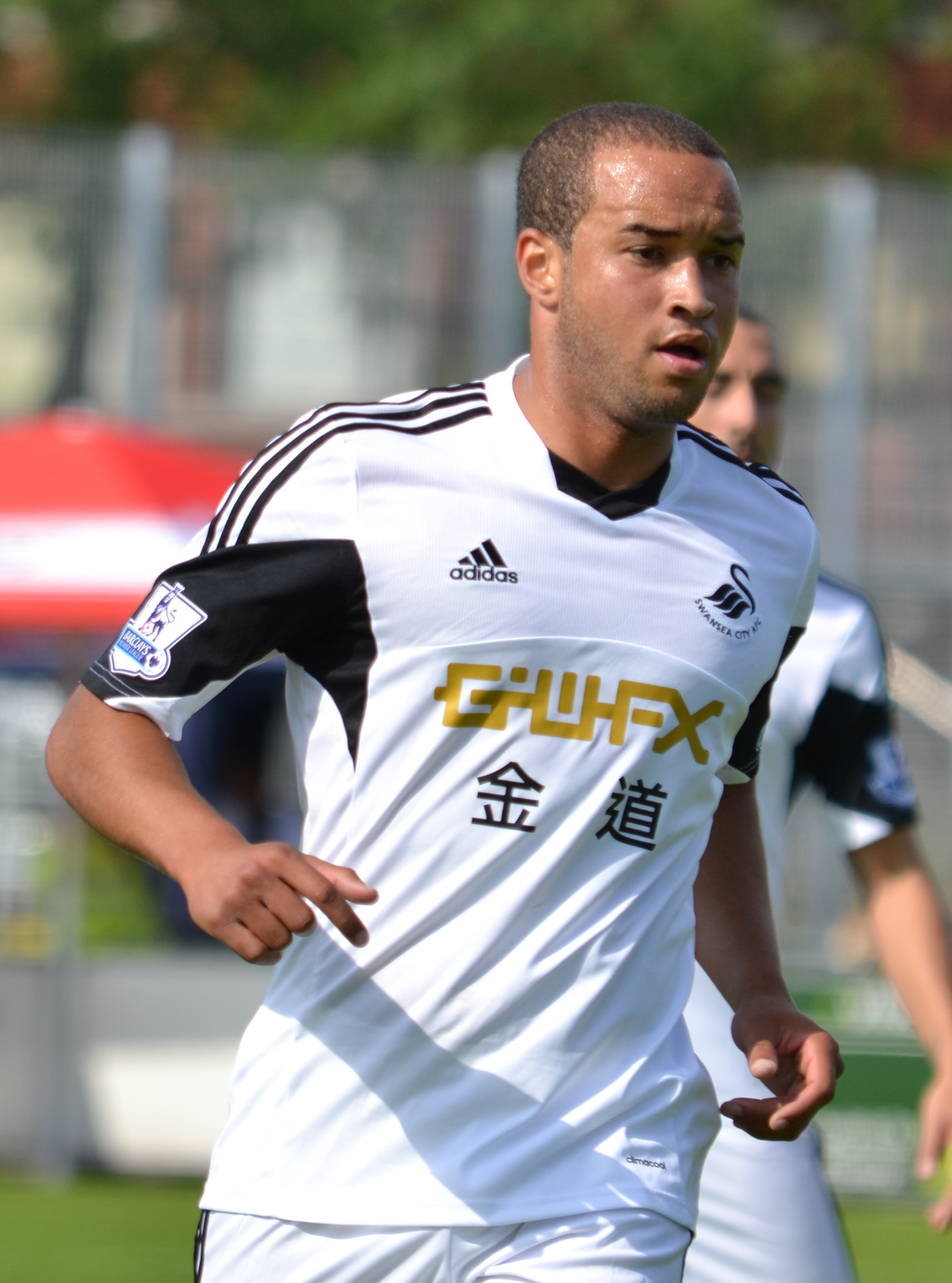 Jazz Richards during 2012/13 pre-season tour with Swansea.